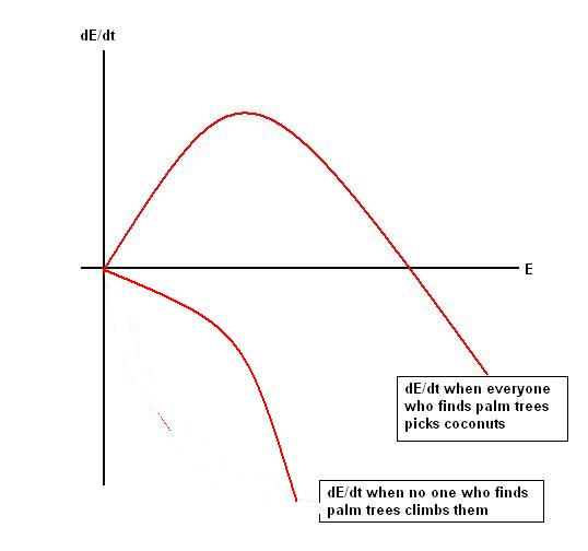 A diagram of the Diamond coconut model showing two adjustment paths to steady state under different expectations. Based on David Romer "Advanced Macroeconomics", 2000